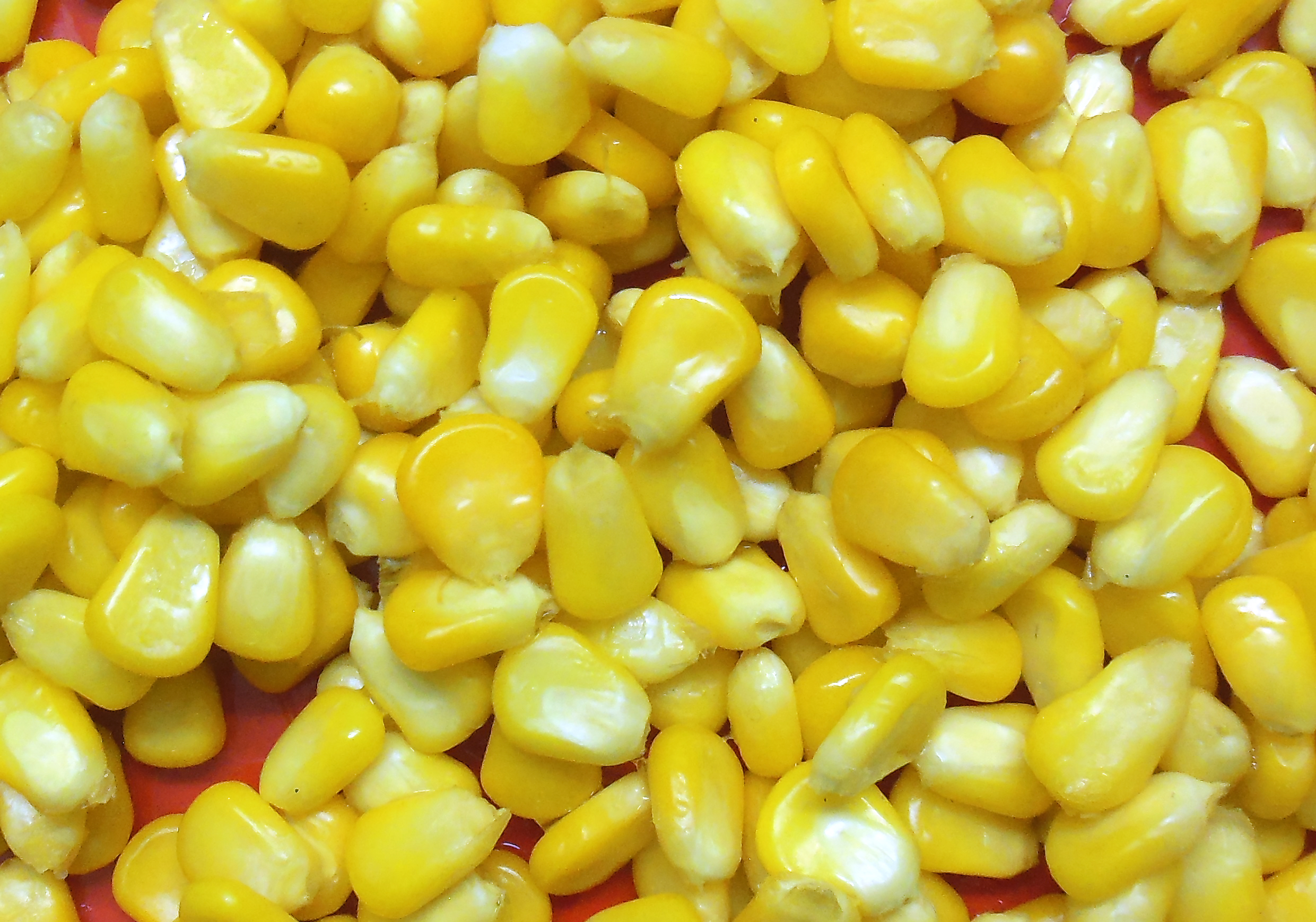 Steamed sweet corns on a plate